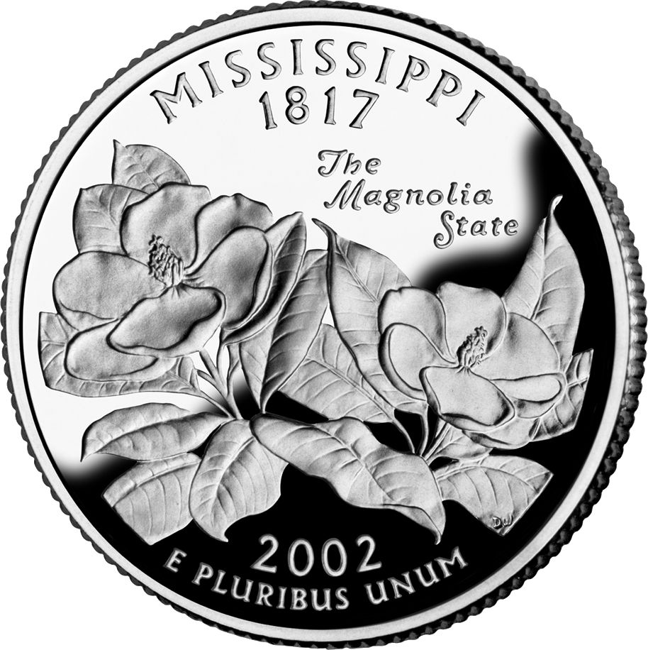 Mississippi quarter of the United States 50 State Quarters.